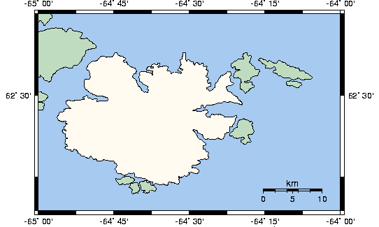 A map showing Loks Land Island and nearby areas. This map's source is here, with the uploader's modifications, and the GMT homepage says that the tools are released under the GNU General Public License.